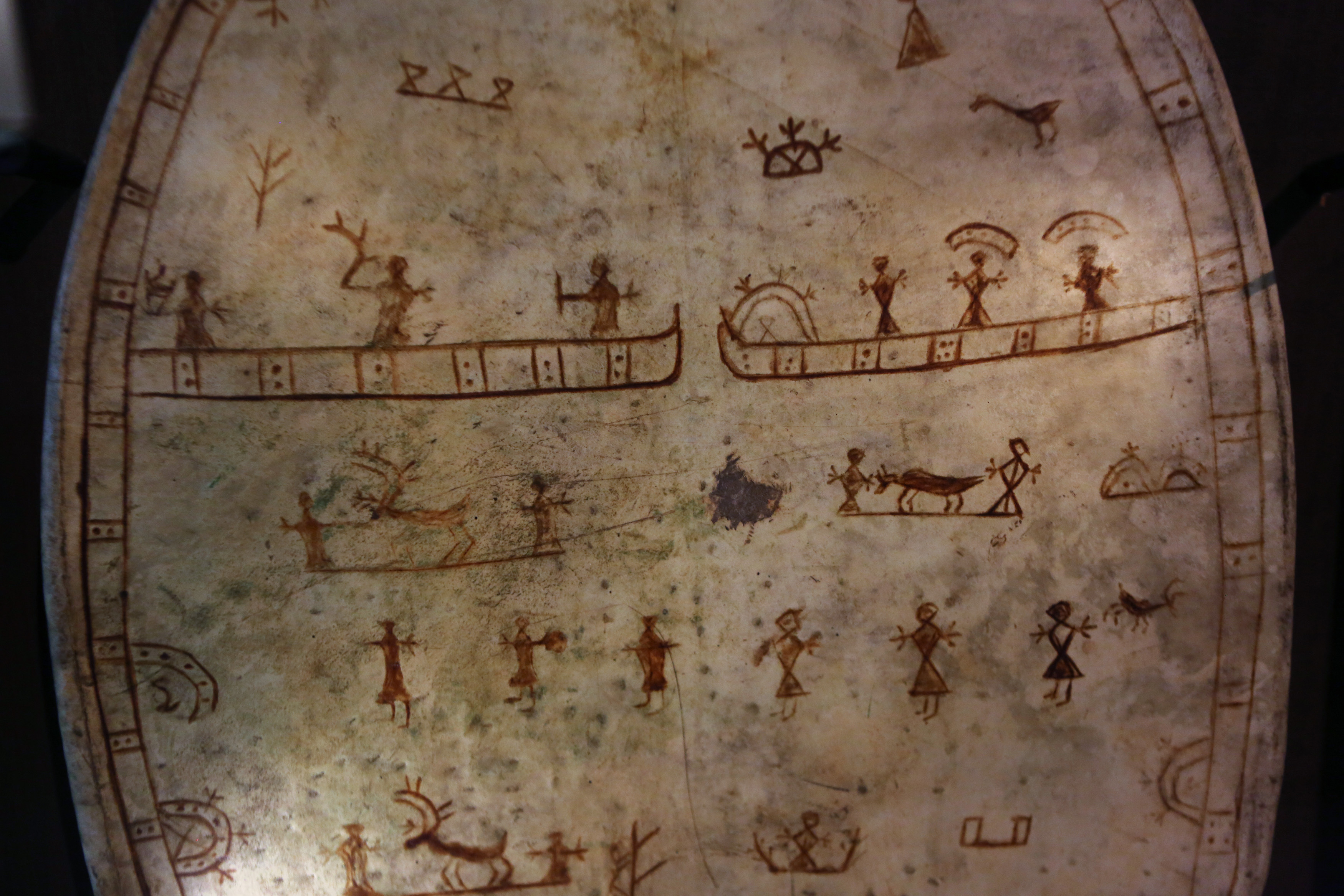 Sámi drum at Siida museum, dedicated to the history and culture of the Sámi people, in Inari, municipality of Inari, Finland.